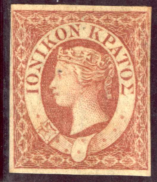 United States of the Ionian Islands (Ionian State) postage stamp, portrait of Queen Victoria with greek text ΙΟΝΙΚΟΝ ΚΡΑΤΟΣ, imperforated. Orange, no value indicated, sold for 1/2 d.